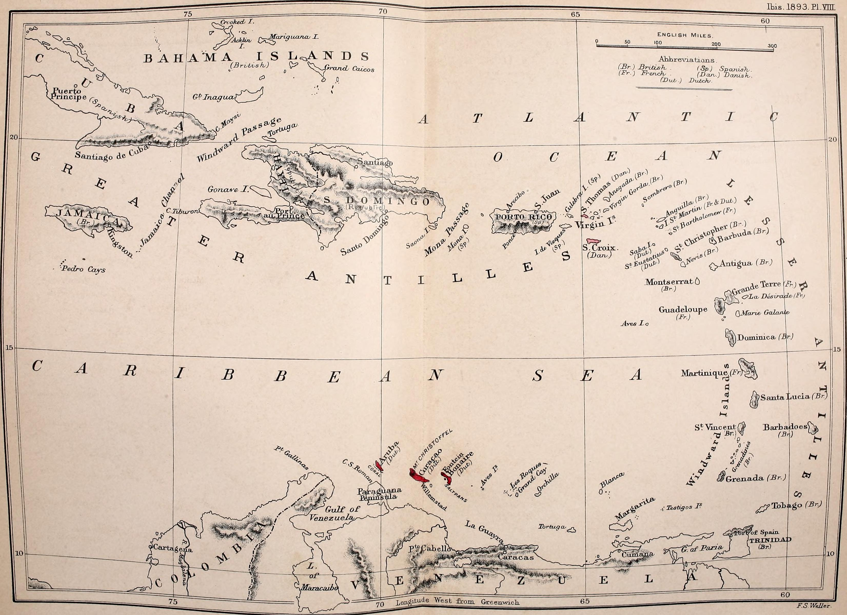 Title: On the birds of the islands of Aruba, Curaçao, and Bonaire Year: 1893 (1890s) Authors: Hartert, Ernst, 1859-1933 Subjects: Birds Birds Birds Publisher: (London? : s.n. Text Appearing Before Image: West fcom. Greenwich. IAN ISLANDS. Ibis. 1893. PI.m Text Appearing After Image: ™»-r^ tatt? ST INDIAN ISLANDS MAP OF Wii& *- Tloi V